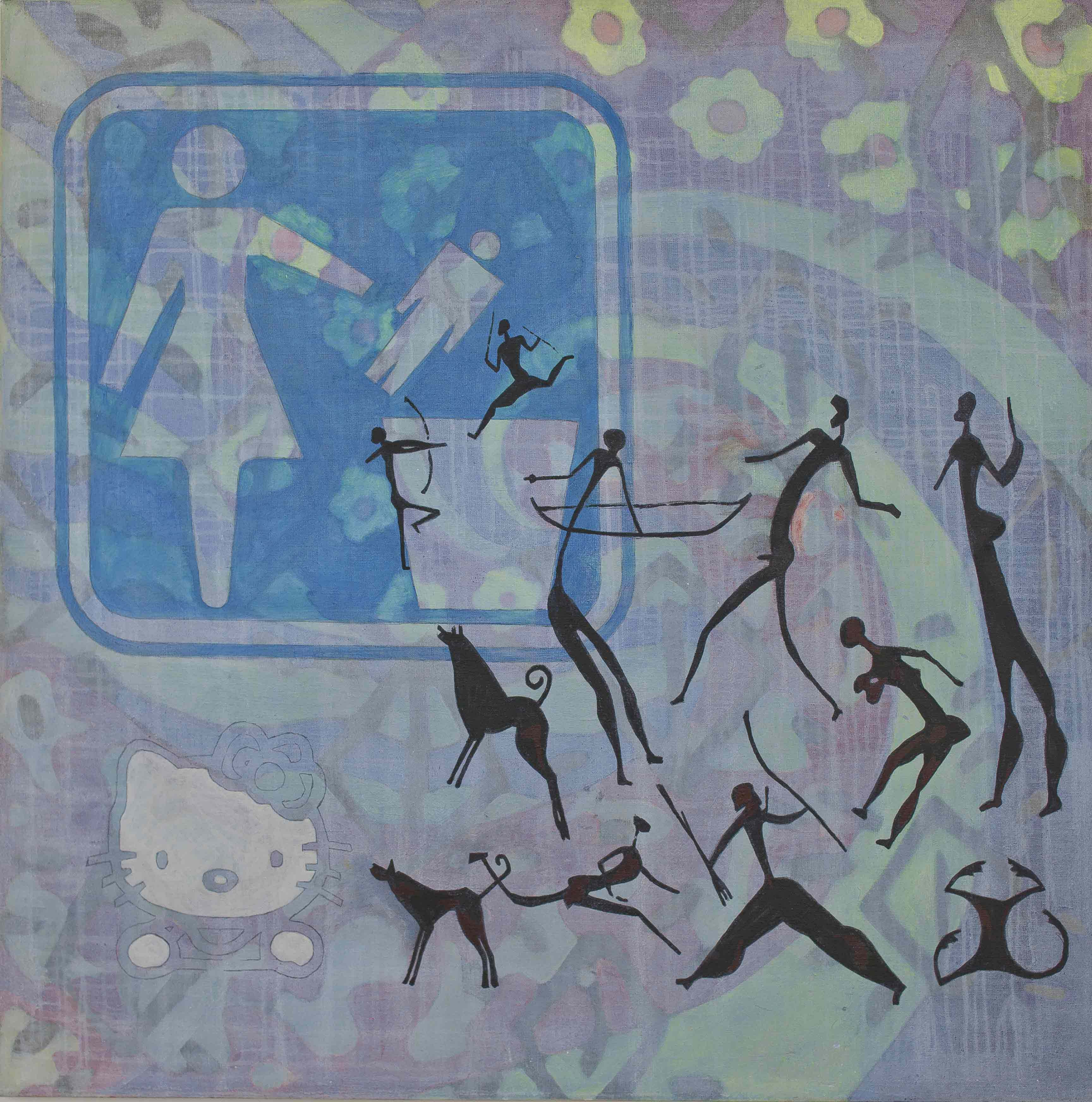 Painting on canvas, combined technique, 2011